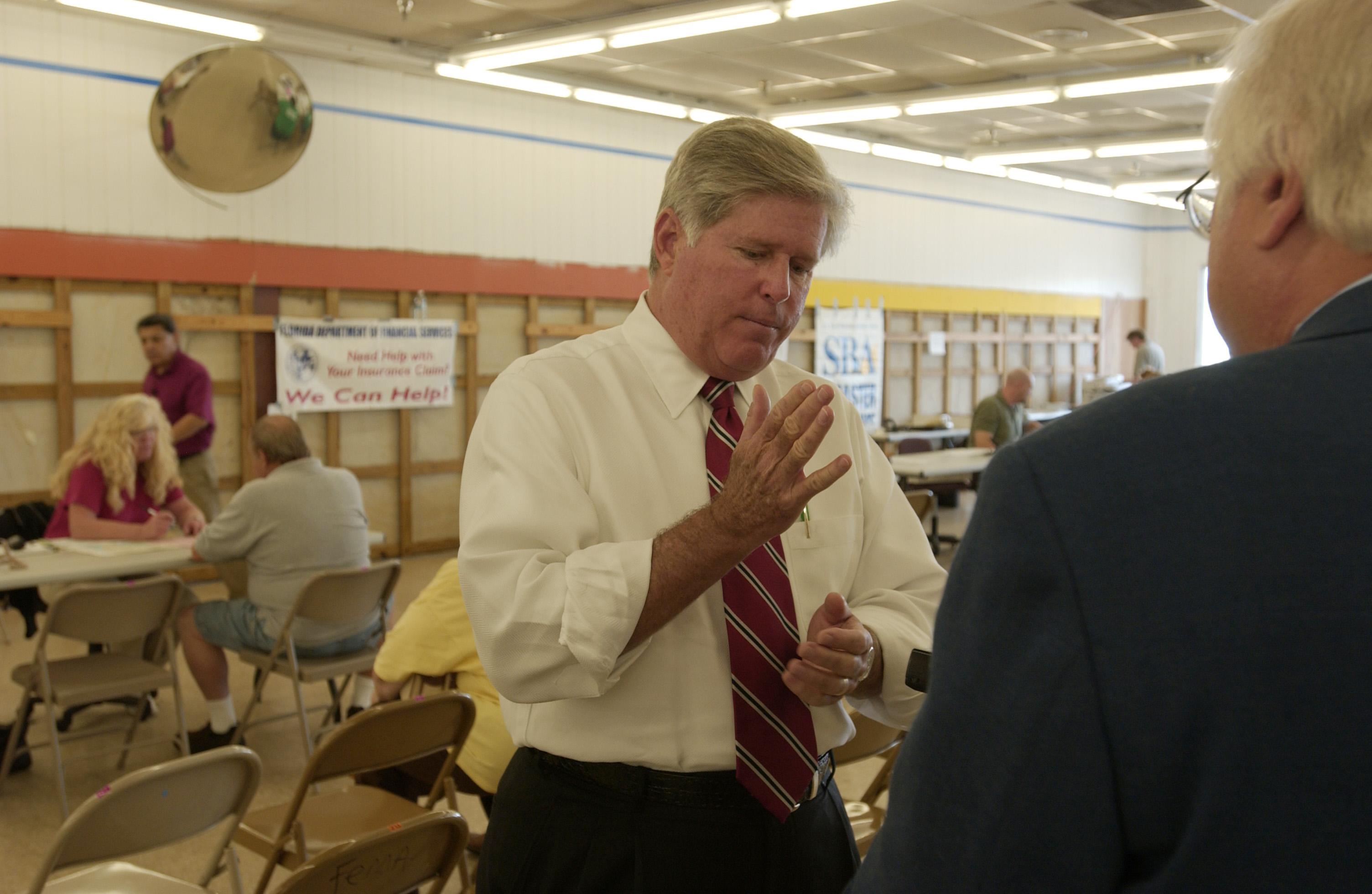 Pensacola, FL, October 18, 2004 -- Florida's head of the Department of Finanical Services, Tom Gallagher, explains the insurance adjustment process for a local reporter. Many people have lost their homes or have damaged homes following Hurricane Ivan. FEMA NewsPhoto/Bill Koplitz